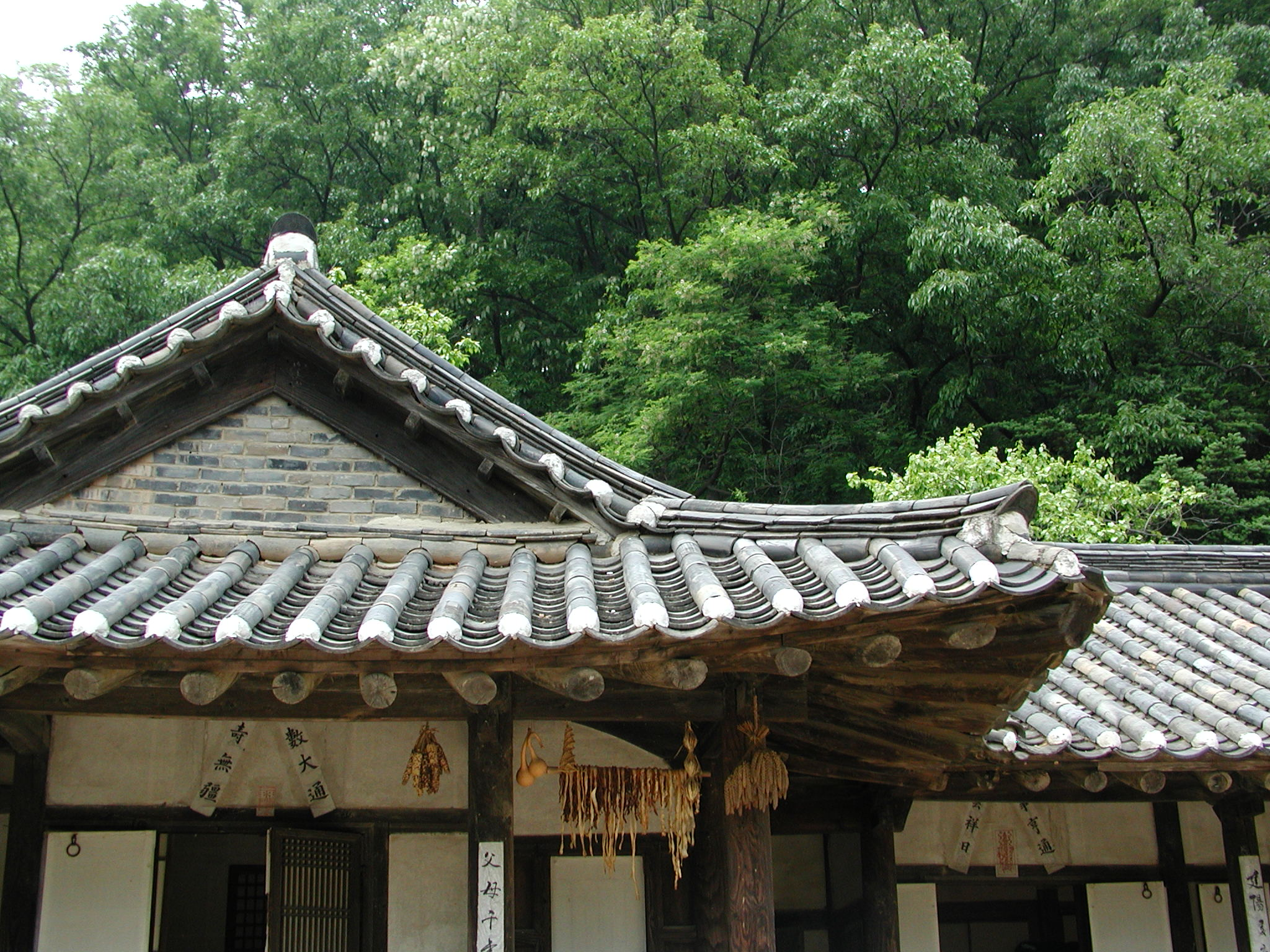 Hanok, Korean traditional house at Korean Folk Village (Minsokchon) in Yongin, Gyeonggi-do, Korea